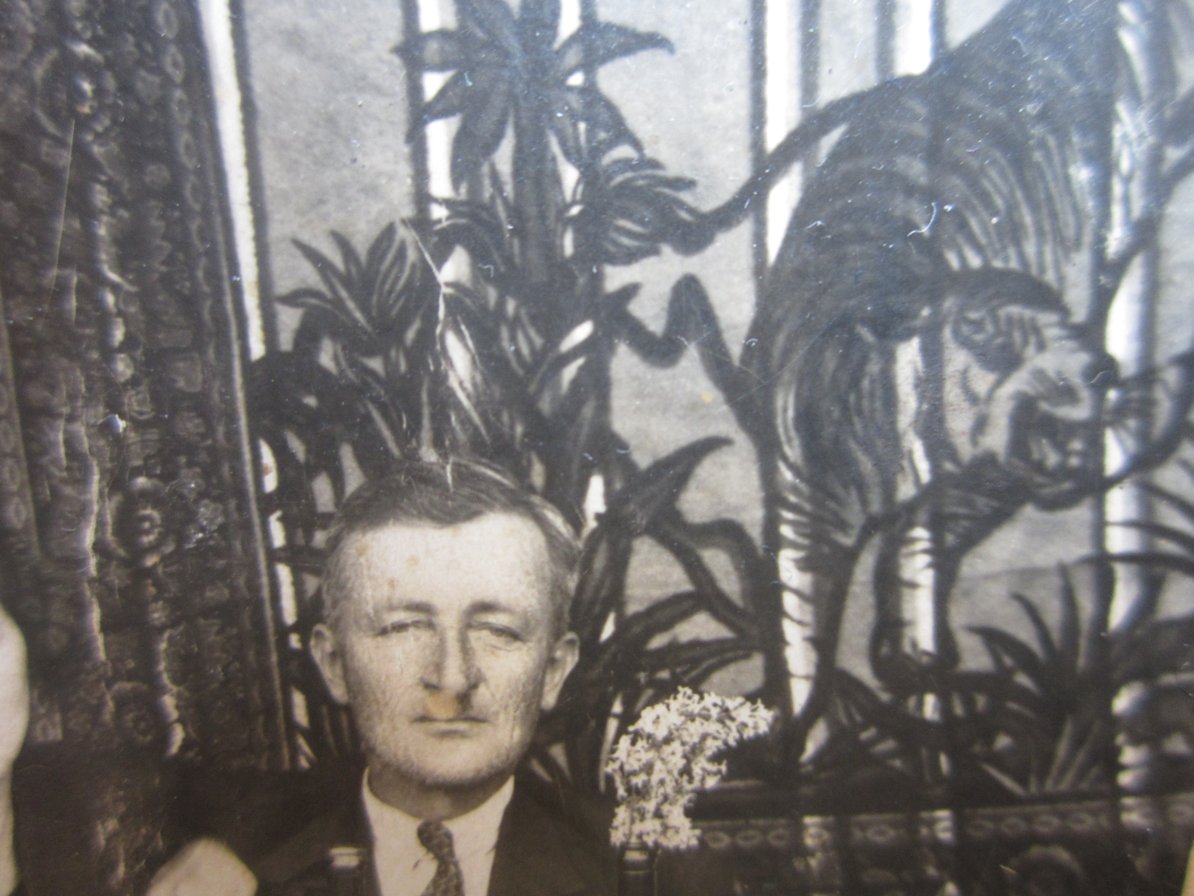 Петар Н. Старчевић